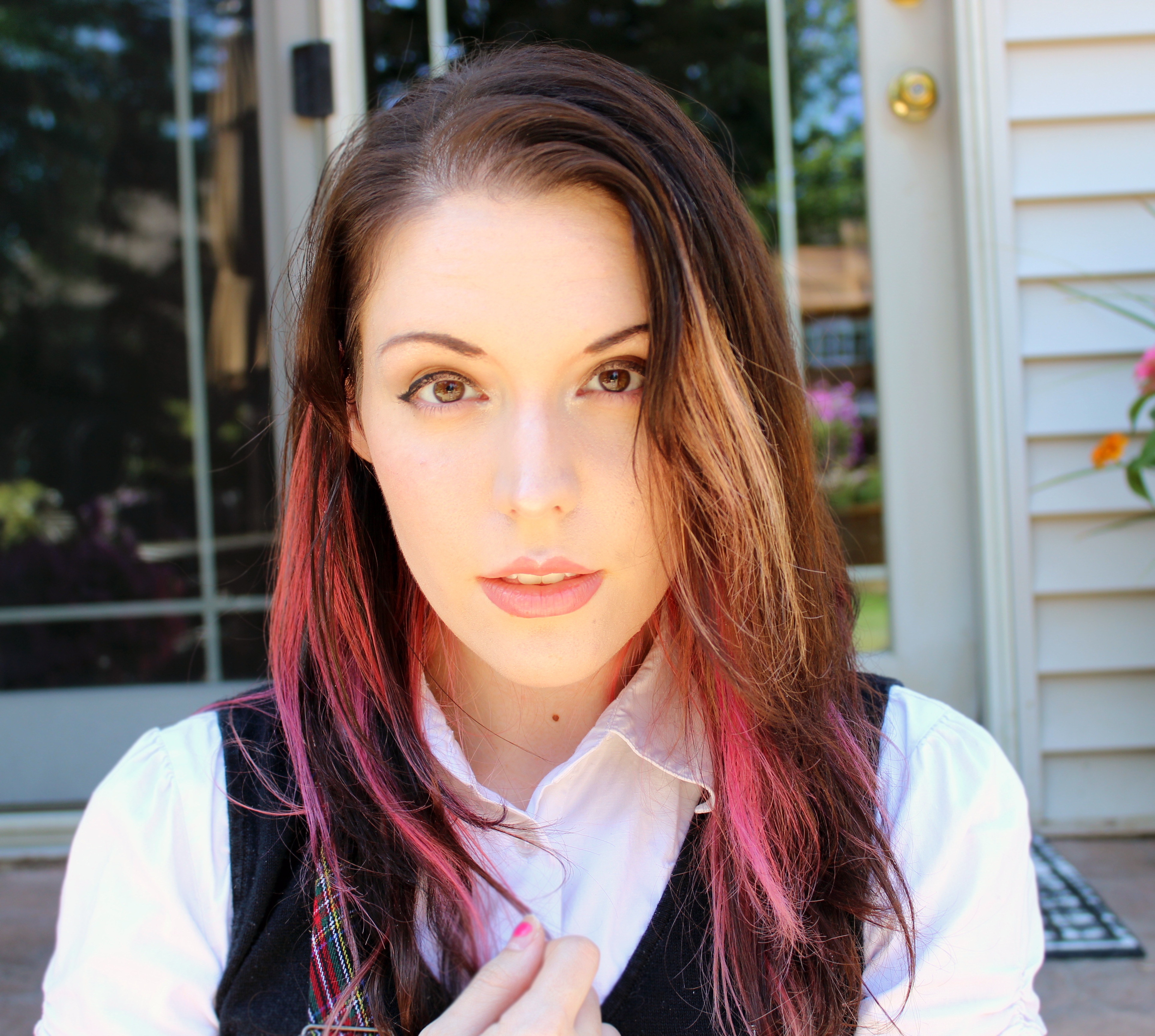 Official Headshot